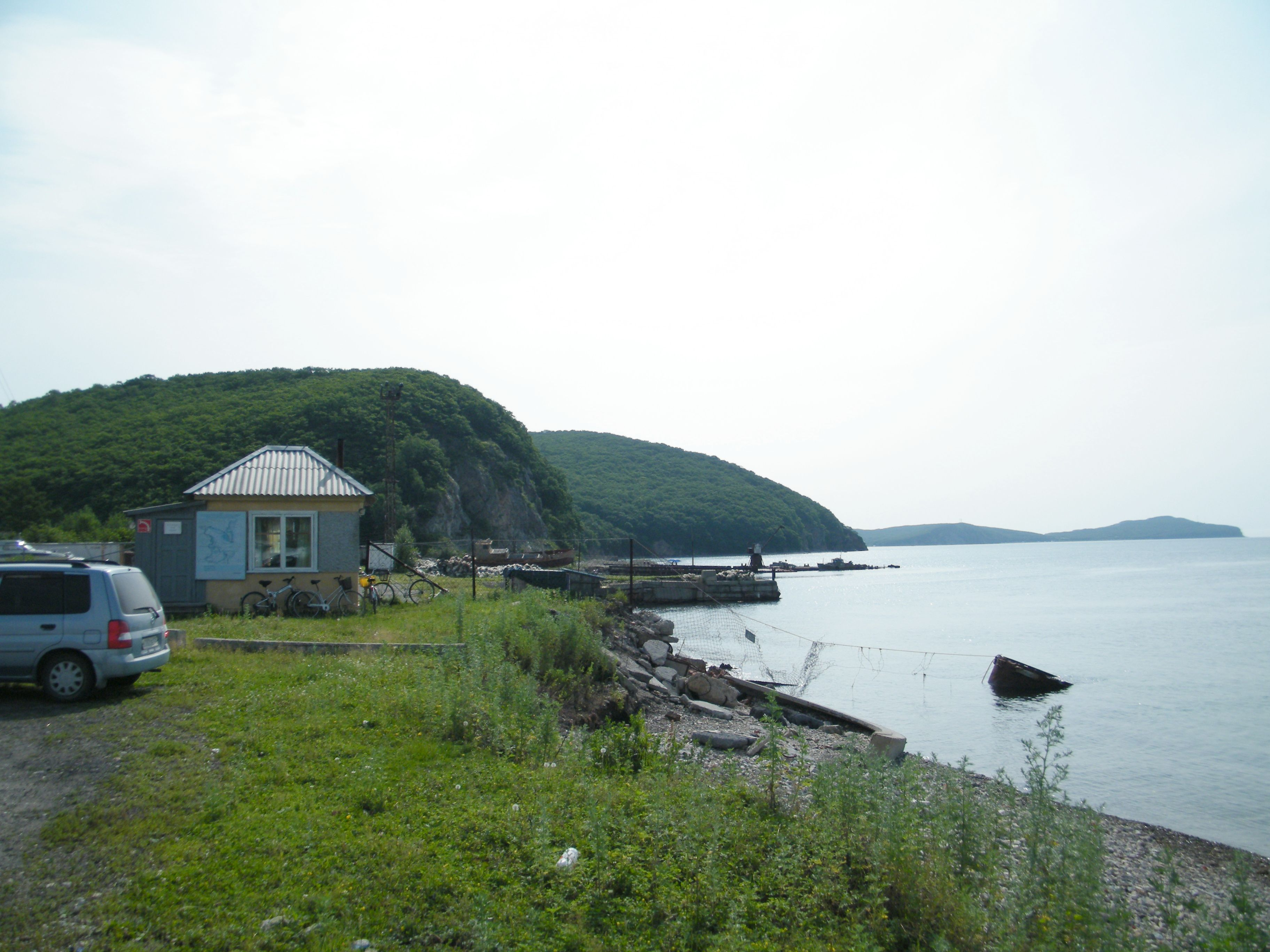 Село Веселый Яр Ольгинский район